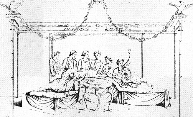 Modification of File:Roman Triclinium or Dining Room.jpg